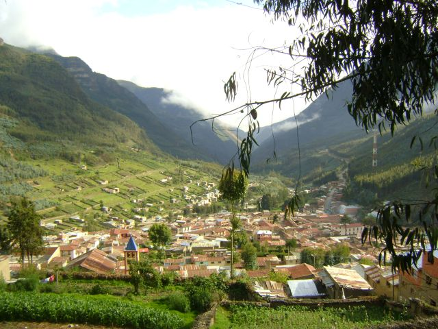 View of Quime, Provincia Inquisivi, Bolivia.